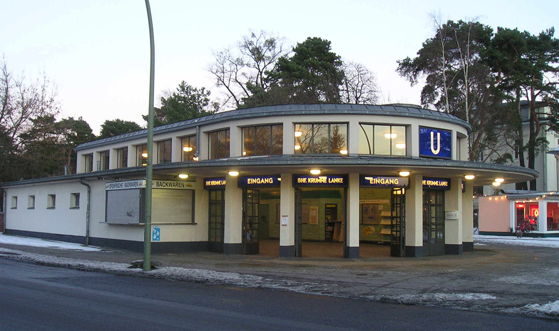 Krumme Lanke underground station in Berlin-Zehlendorf